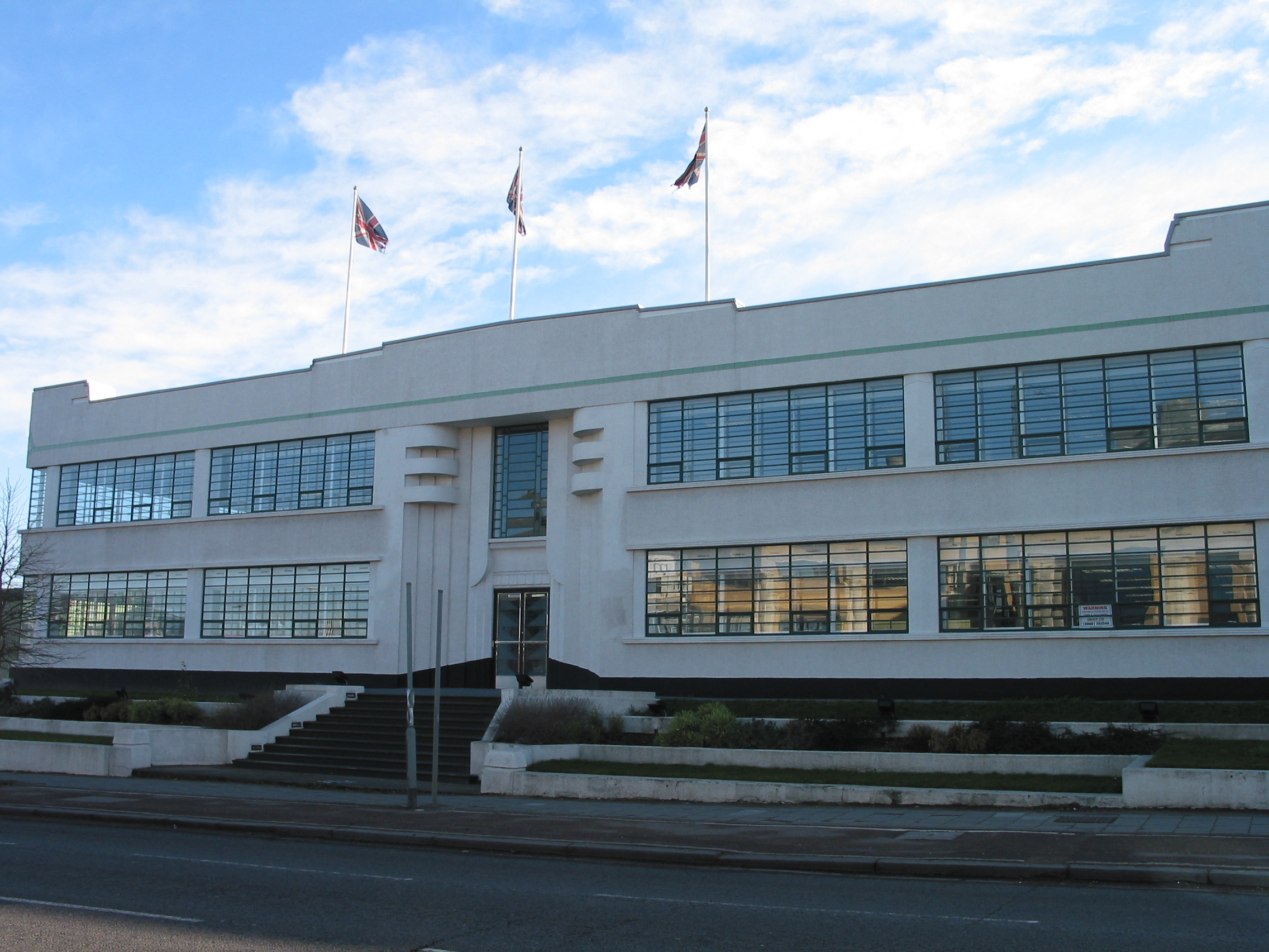 Picture of the frontage of the Art Deco Coty Cosmetics factory, designed by the Wallis, Gilbert and Partners partnership in 1932, Great West Road, Brentford, UK photo by myself Date and Time 2005:01:23 13:34:46 Exposure Time 1/320 sec. F Number f/4.0 Copyright © 2005 WLD